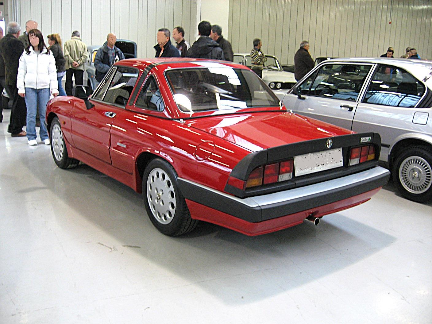 Subject:Alfa Romeo Spider Mk3 (1983-90) with hardtop Author:Luc106 Date:March 15th, 2007 Event:Old Timer Show 2008 Place/Country: Forlì, Italy I release all rights in the public domain.